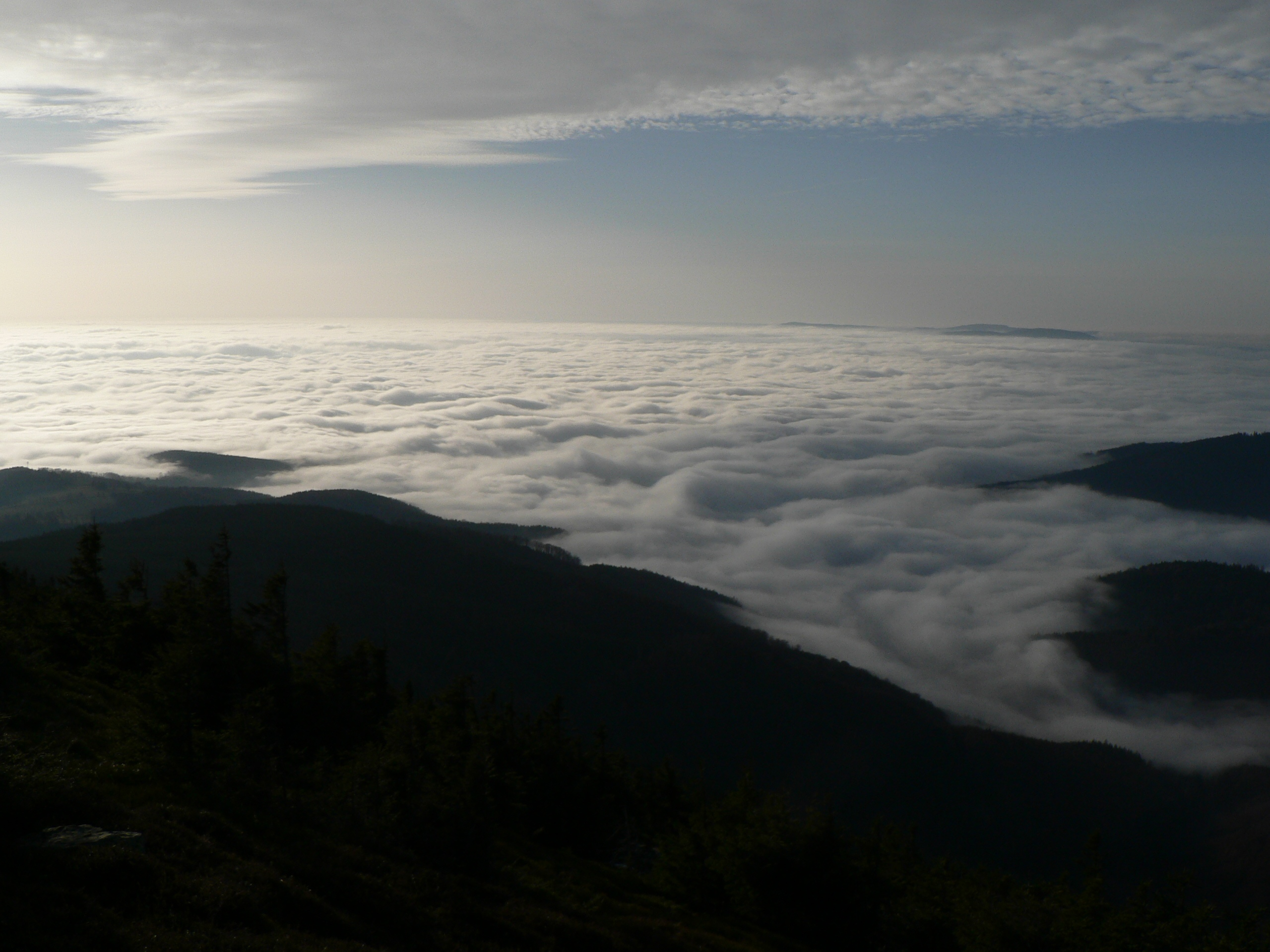 Autumn meteorological inversion (late November) around Hruby Jesenik mountains, Czech republic.